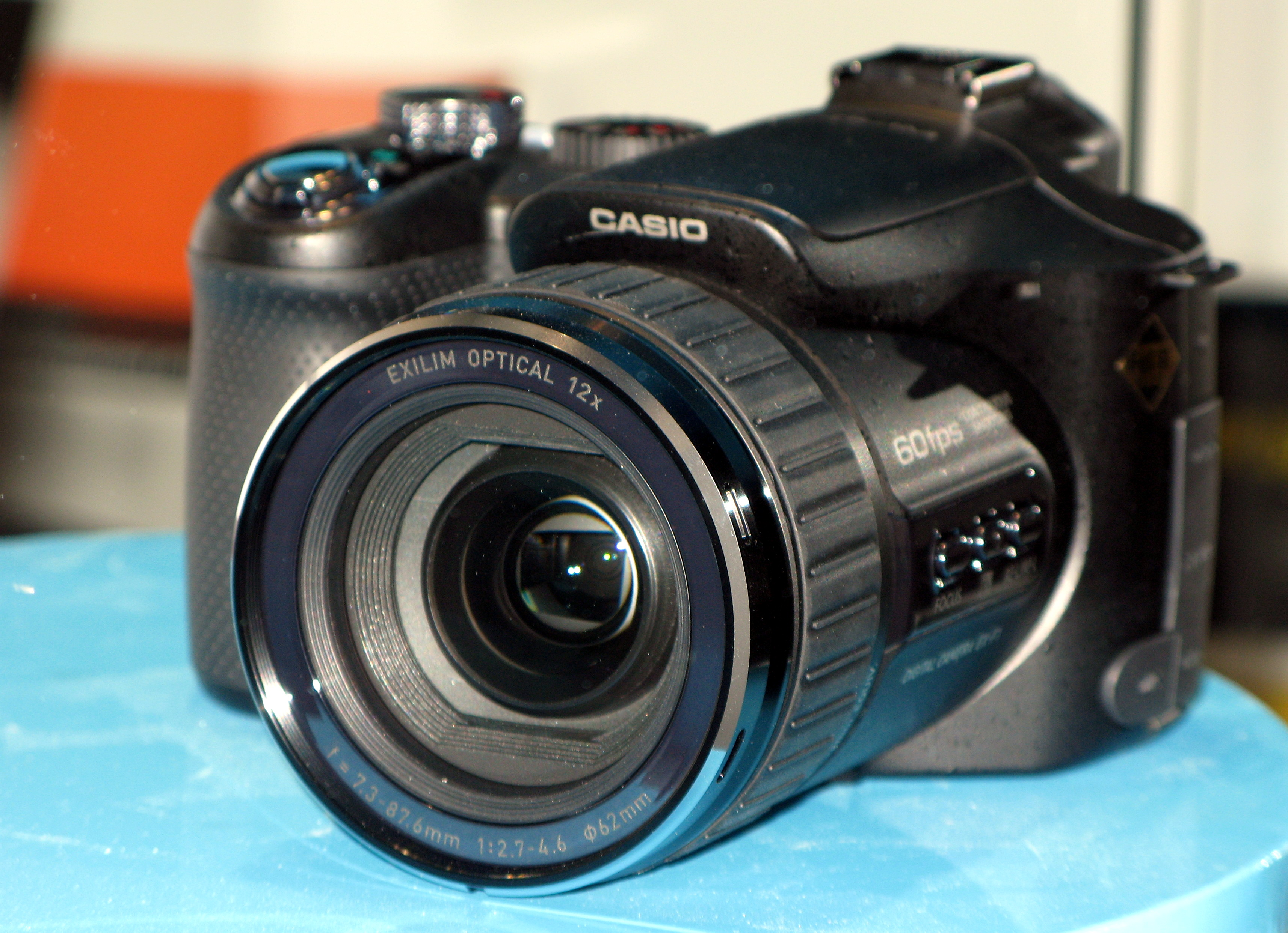 Casio Exilim EX-F1